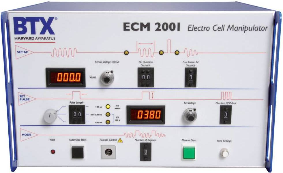 BTX ECM 2001 Electrofusion generator for hybirdoma production